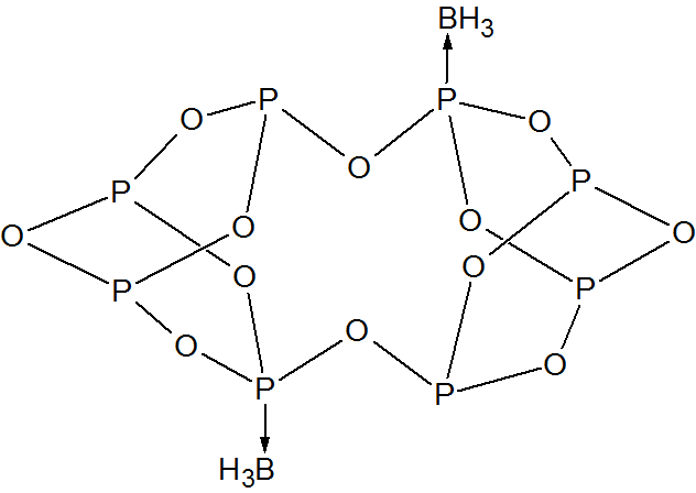 An adduct of phosphorus oxide with BH3, formed by reacting phosphorus trioxide with dimethyl sulfide-borane complex in toluene solution at 244K